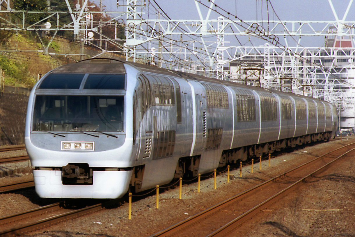 JR East 251 series EMU in original livery on a Super View Odoriko service near Shin-Koyasu Station